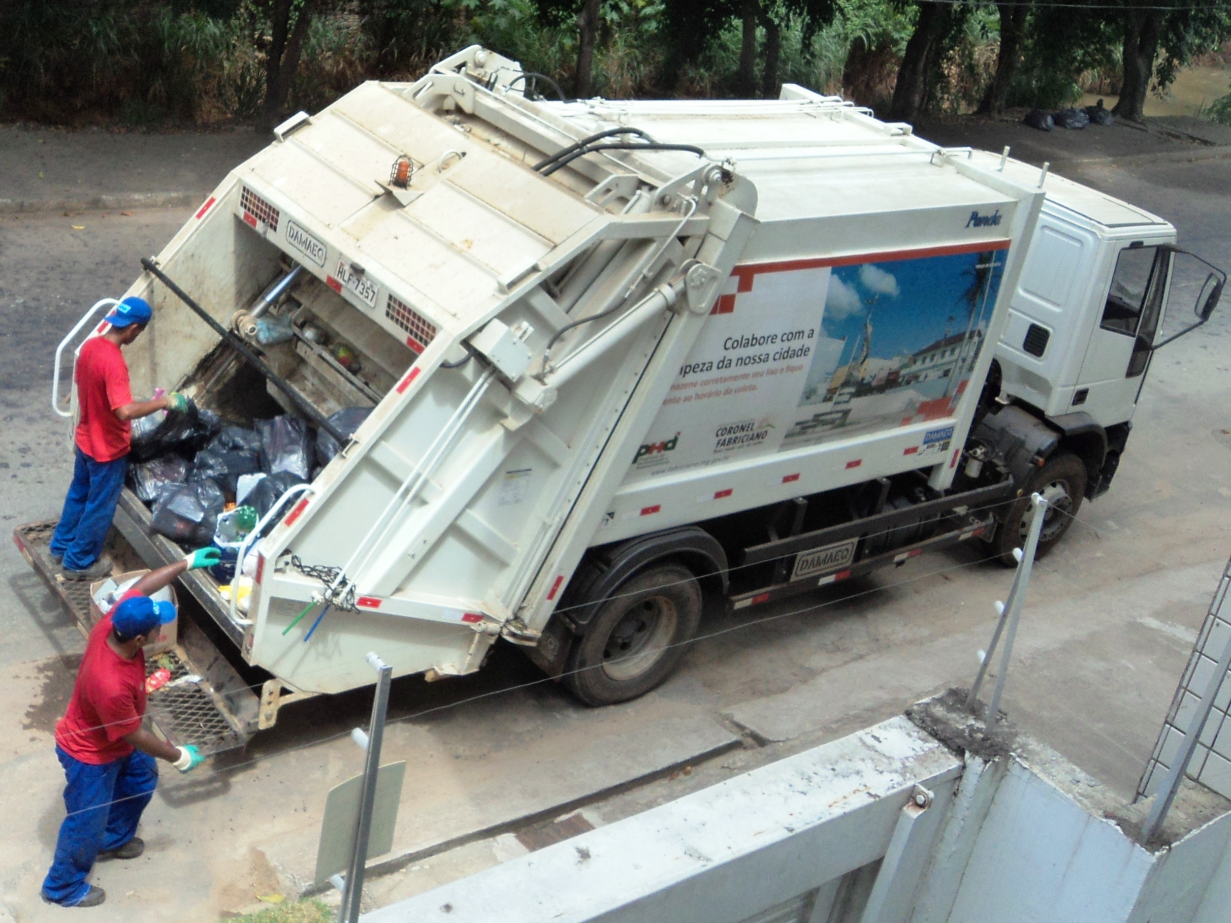 Waste collection trucks of Coronel Fabriciano, Minas Gerais, Brazil. Iveco EuroCargo Mk1 truck.